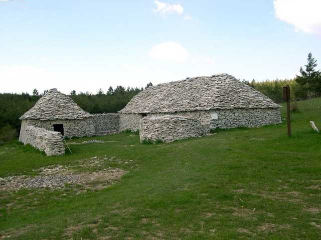 The Jas des Terres du Roux at Redortiers, Alpes-de-Haute-Provence, France: a late 19th century dry stone built sheepfold.